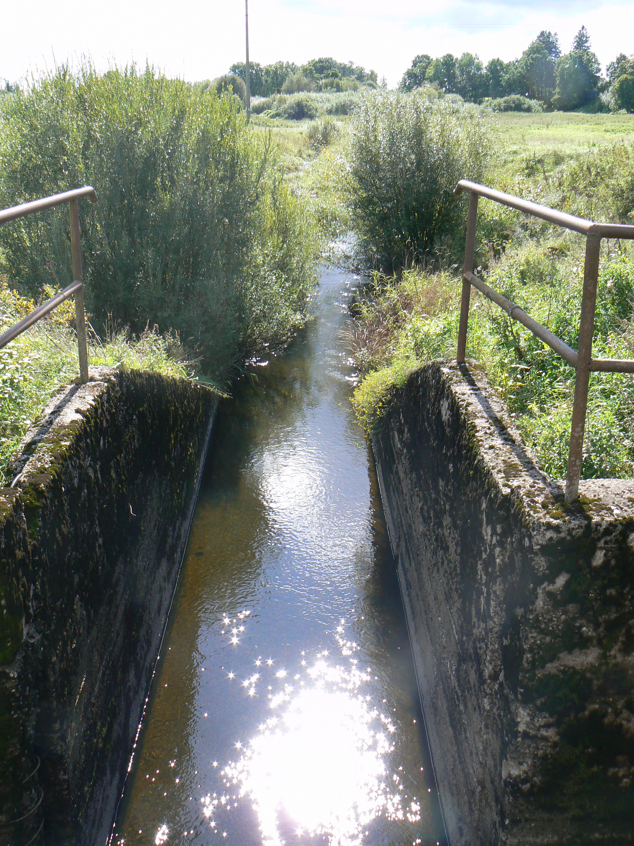 Ditupė in Dituva